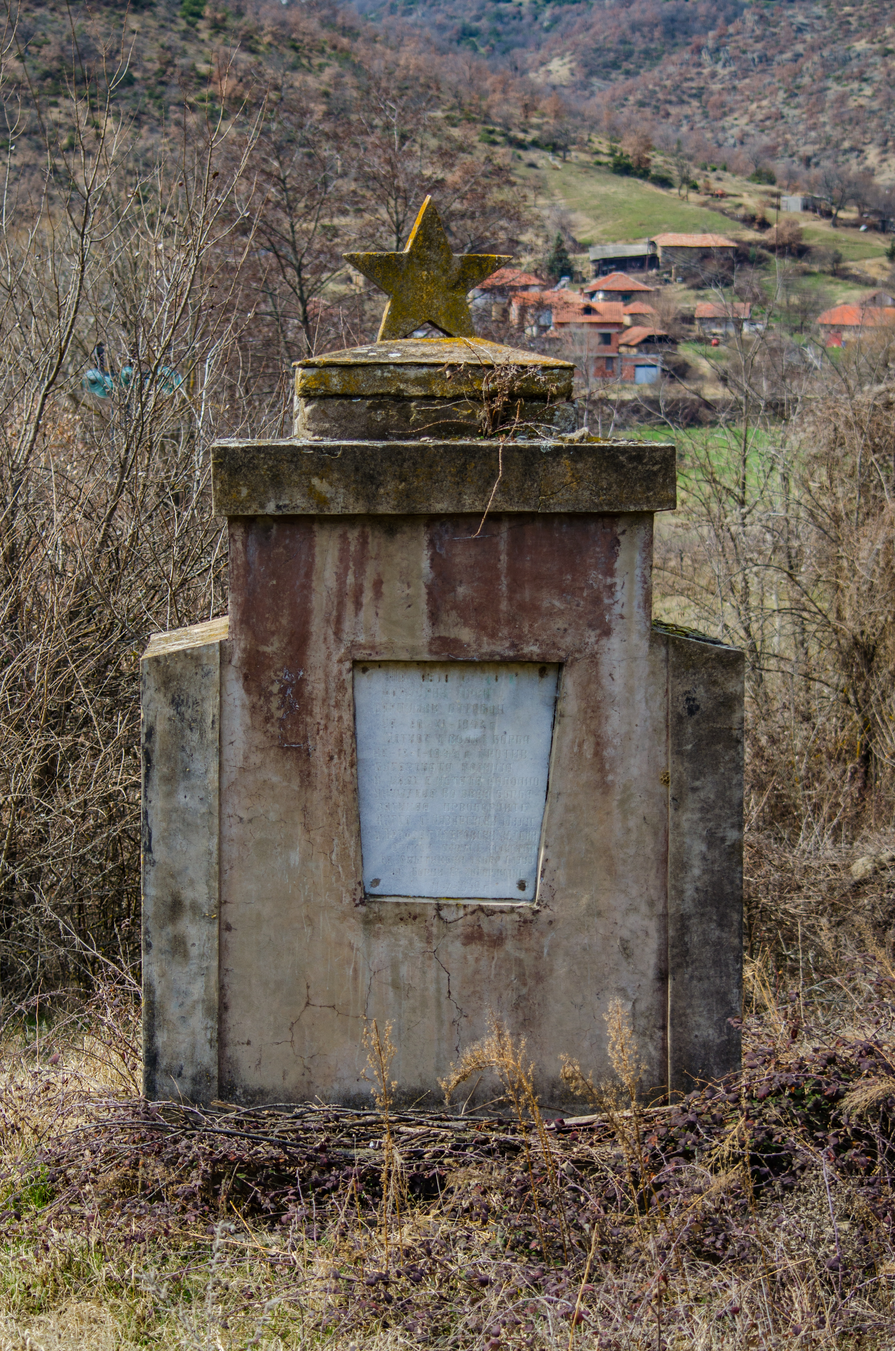 Мonument in Zlatinci, Pelince